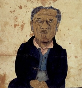 Bartimea Puaaiki, watercolor sketch by C. C. Armstrong.